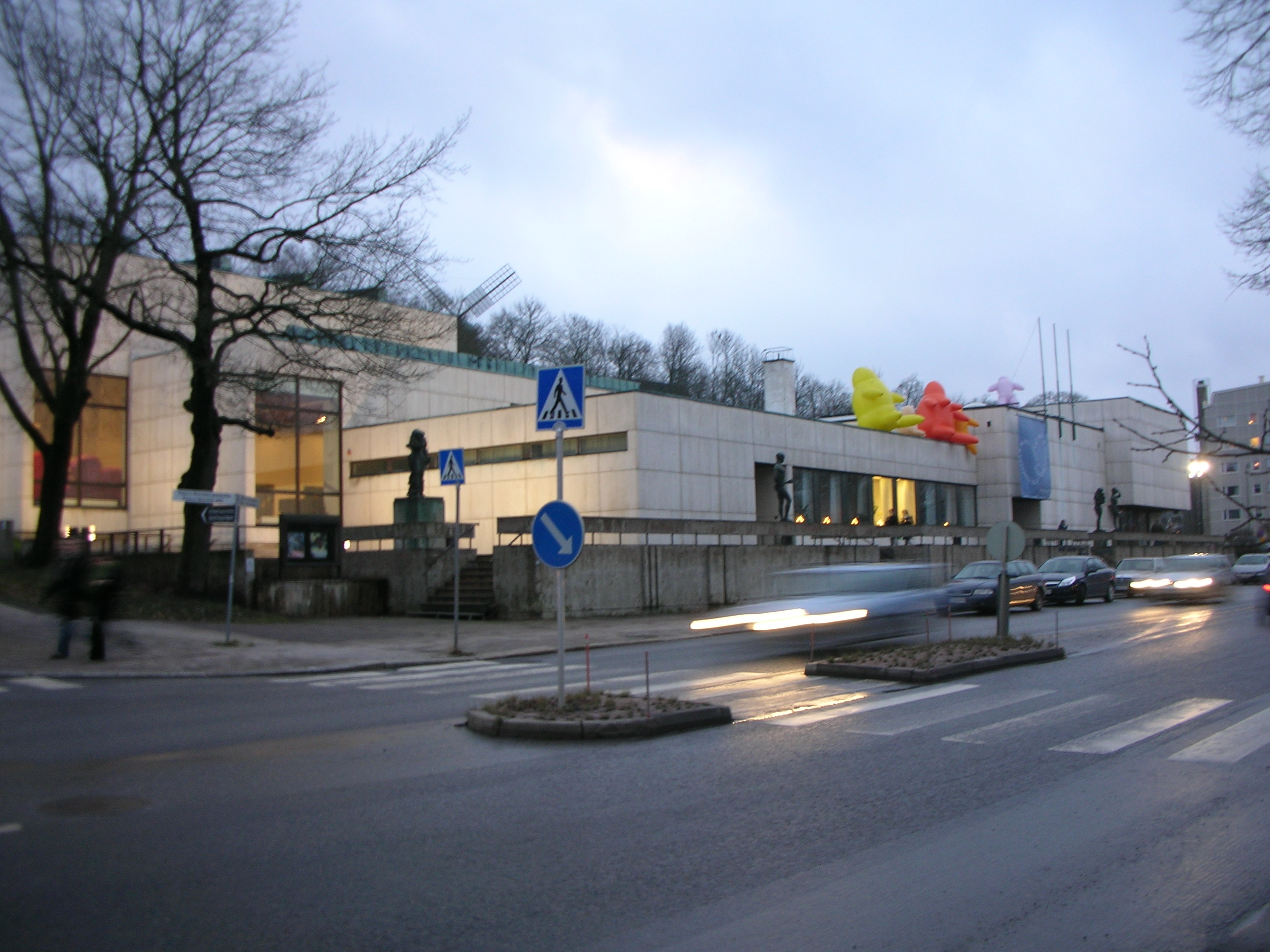 Wäinö Aaltonen museum in Turku, Finland.